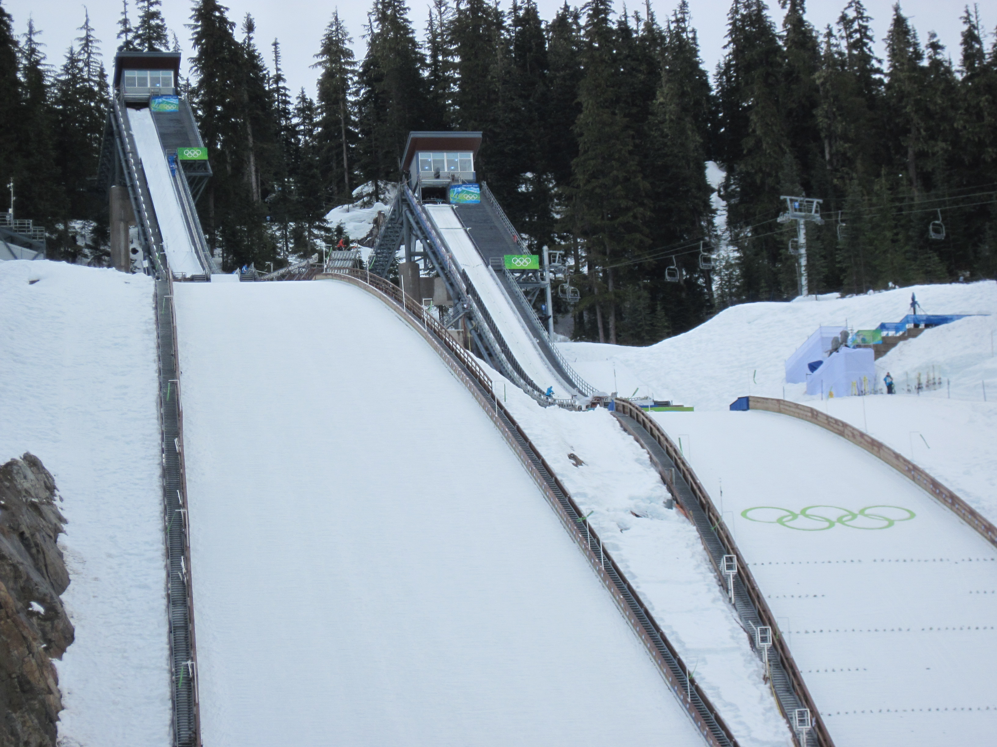 Whistler Olympic Park in Callaghan Valley, British Columbia, Canada.